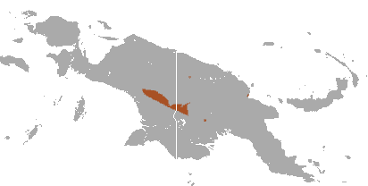 Dragon Tube-nosed Fruit Bat (Nyctimene draconilla) range